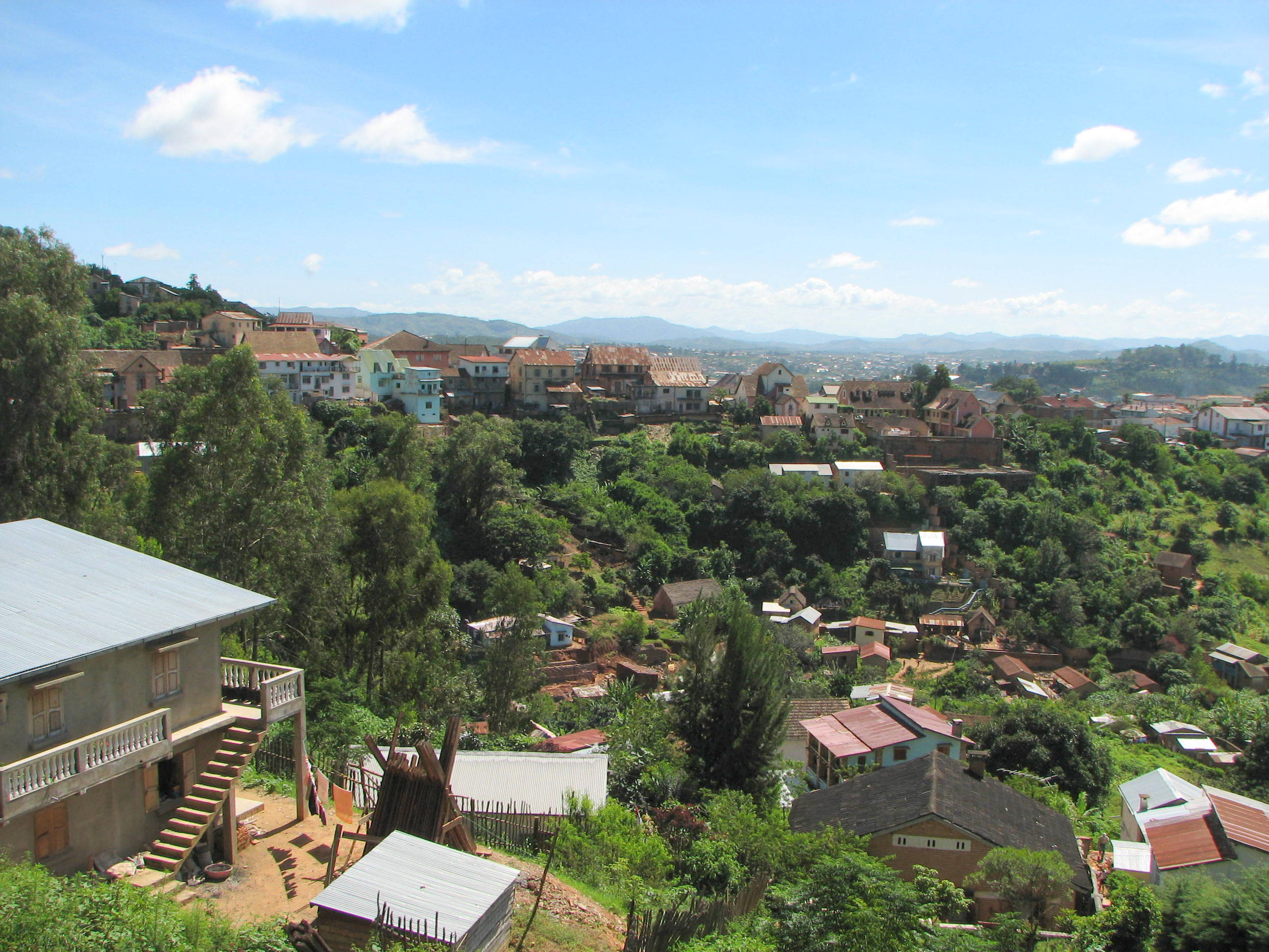 City of Fianarantsoa, Madagascar